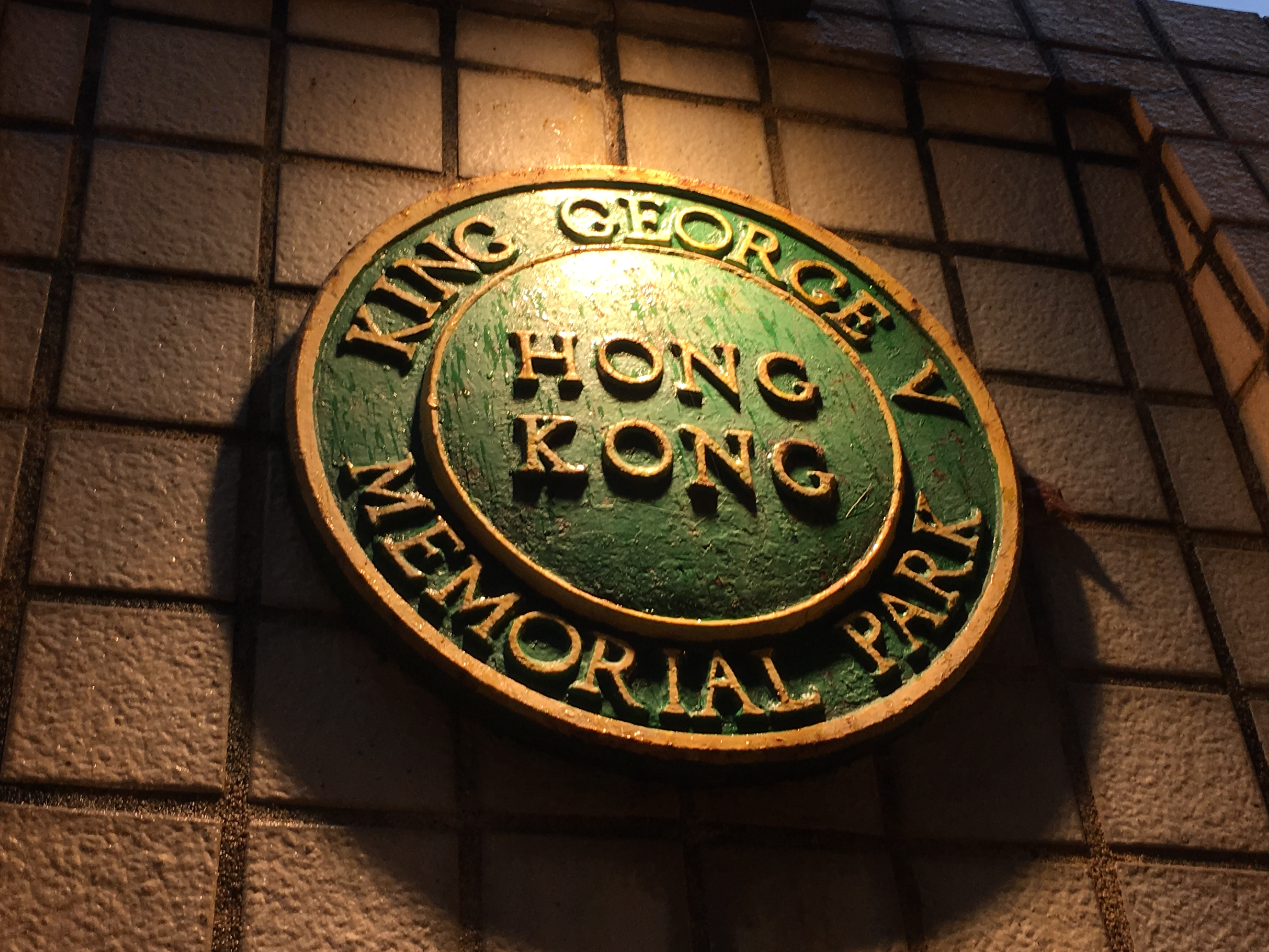 Sign in west entry, King George V Memorial Park, Hong Kong, in evening